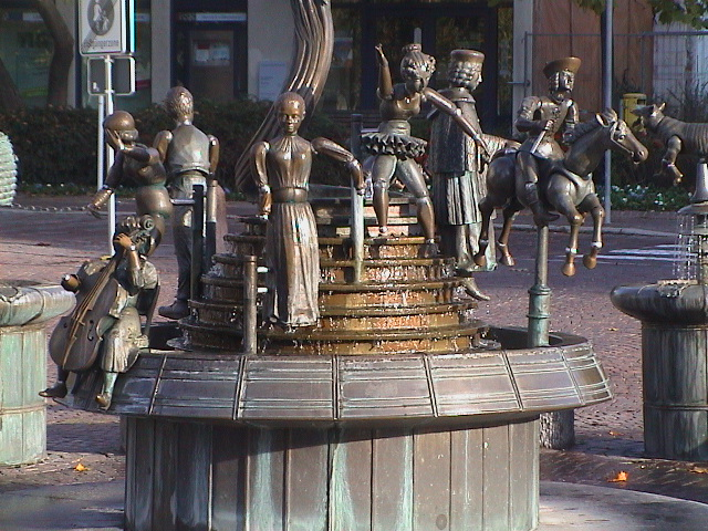 Fountain Freundschaftsbrunnen by Bonifatius Stirnberg on the market place in Sindelfingen, Germany